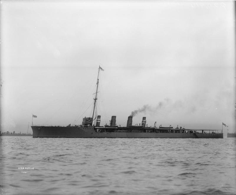 Photograph of British cruiser HMS Active.